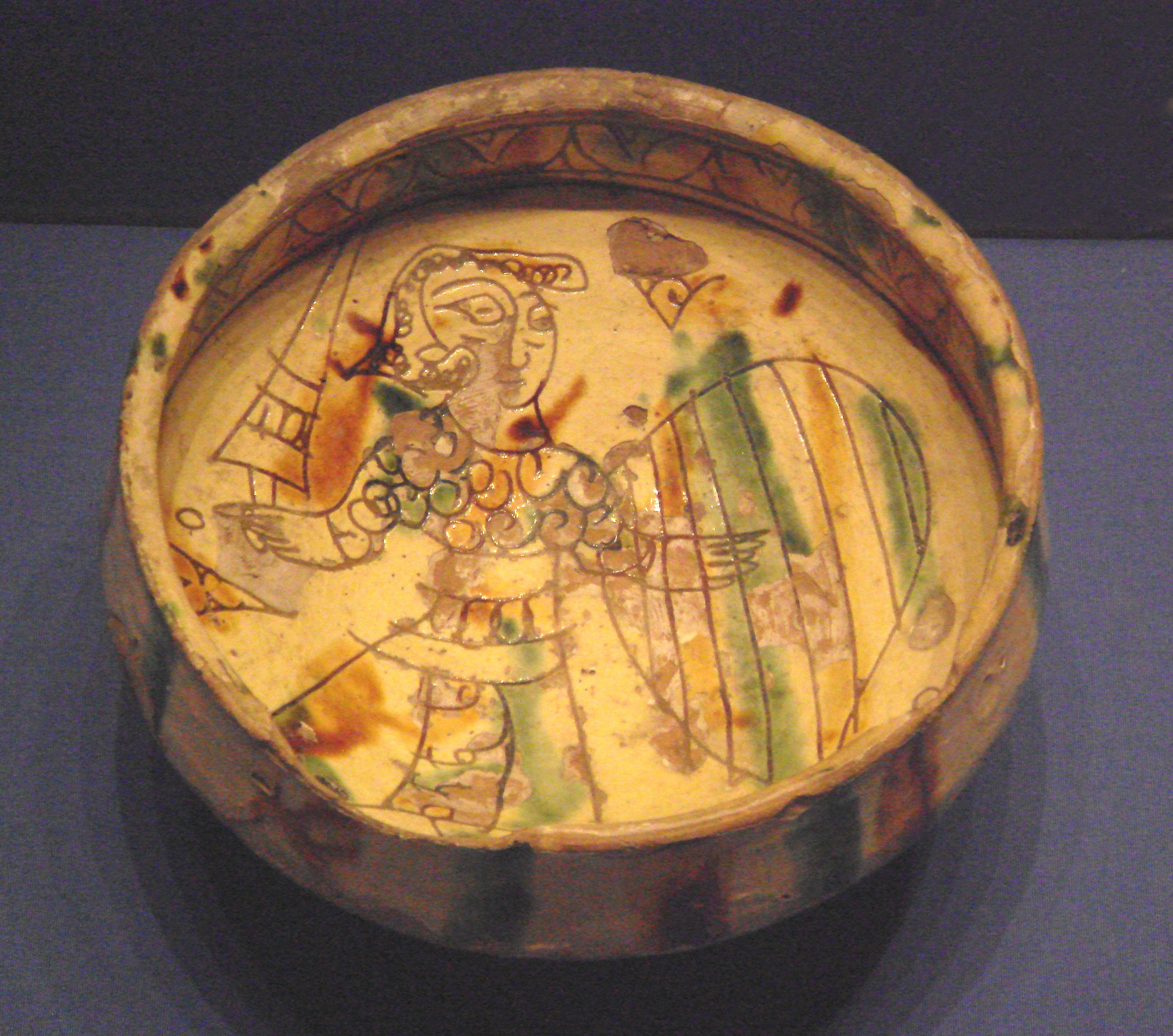 Cyprus_eathenware_1200_1350